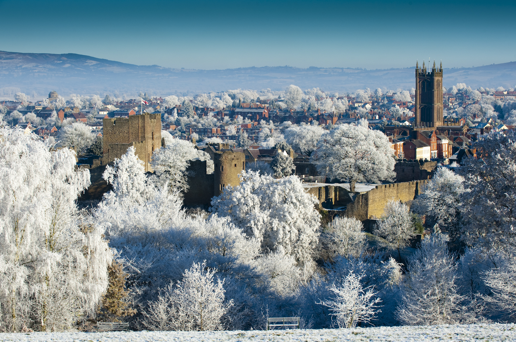 Ludlow, Shropshire, covered in winter snow.